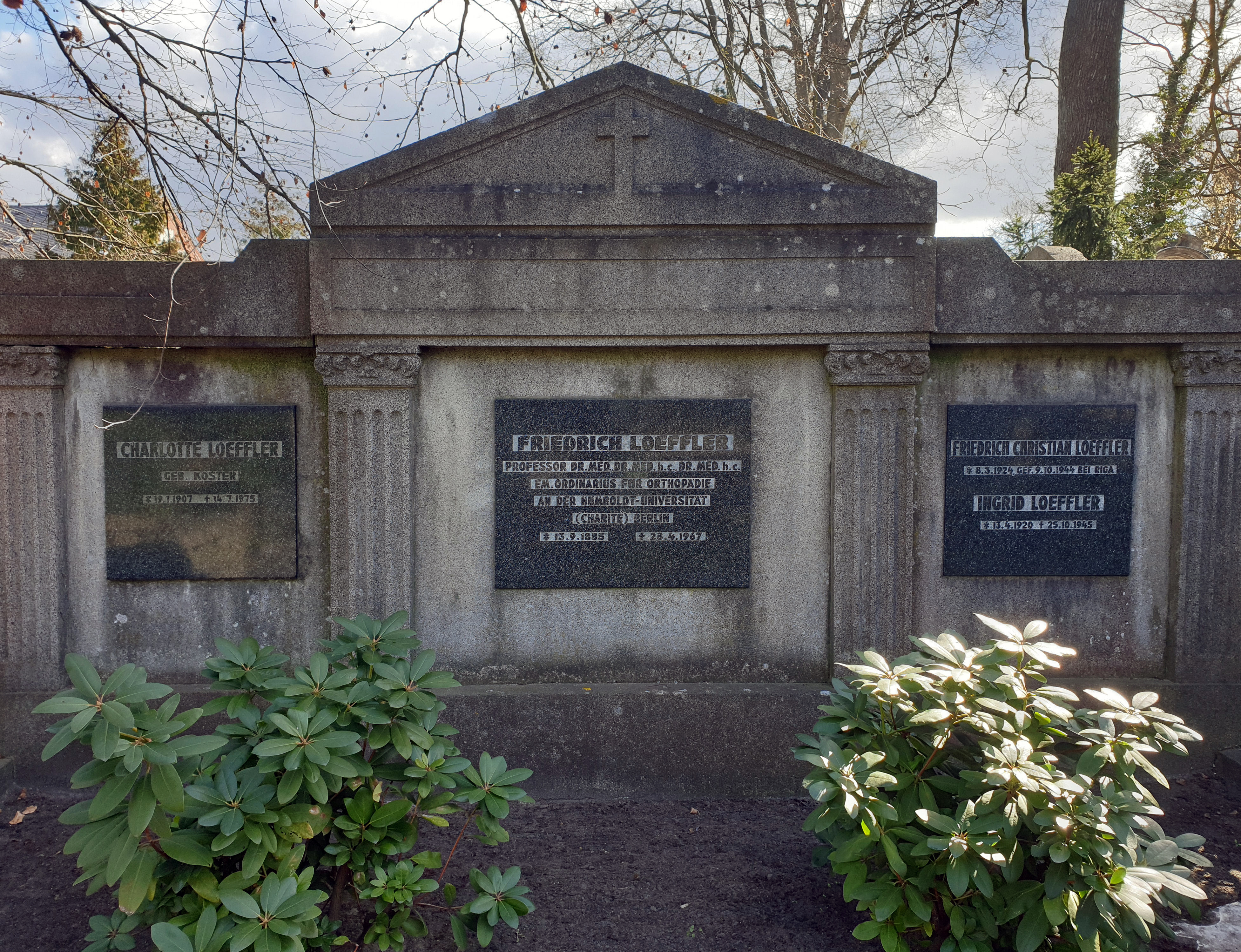 Grave, Friedrich Loeffler, Aßmannstraße 12, Berlin-Friedrichshagen, Germany